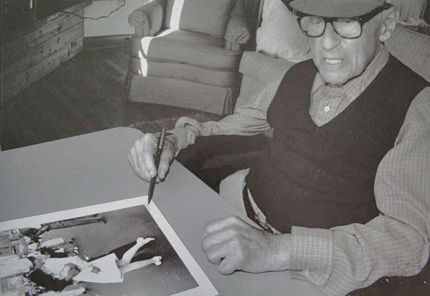 Alfred Eisenstaedt (Eisie) signing a "VJ day" print on the afternoon of August 23, 1995, for his friend, William Waterway Marks. The location is Eisie's vacation cabin located at Menemsha Inn on the island of Martha's Vineyard. Eisie died in the cabin about eight-hours later, shortly after midnight, on August 24, 1995, in the company of his sister-in-law, Lucille Kaye, and William Waterway Marks.